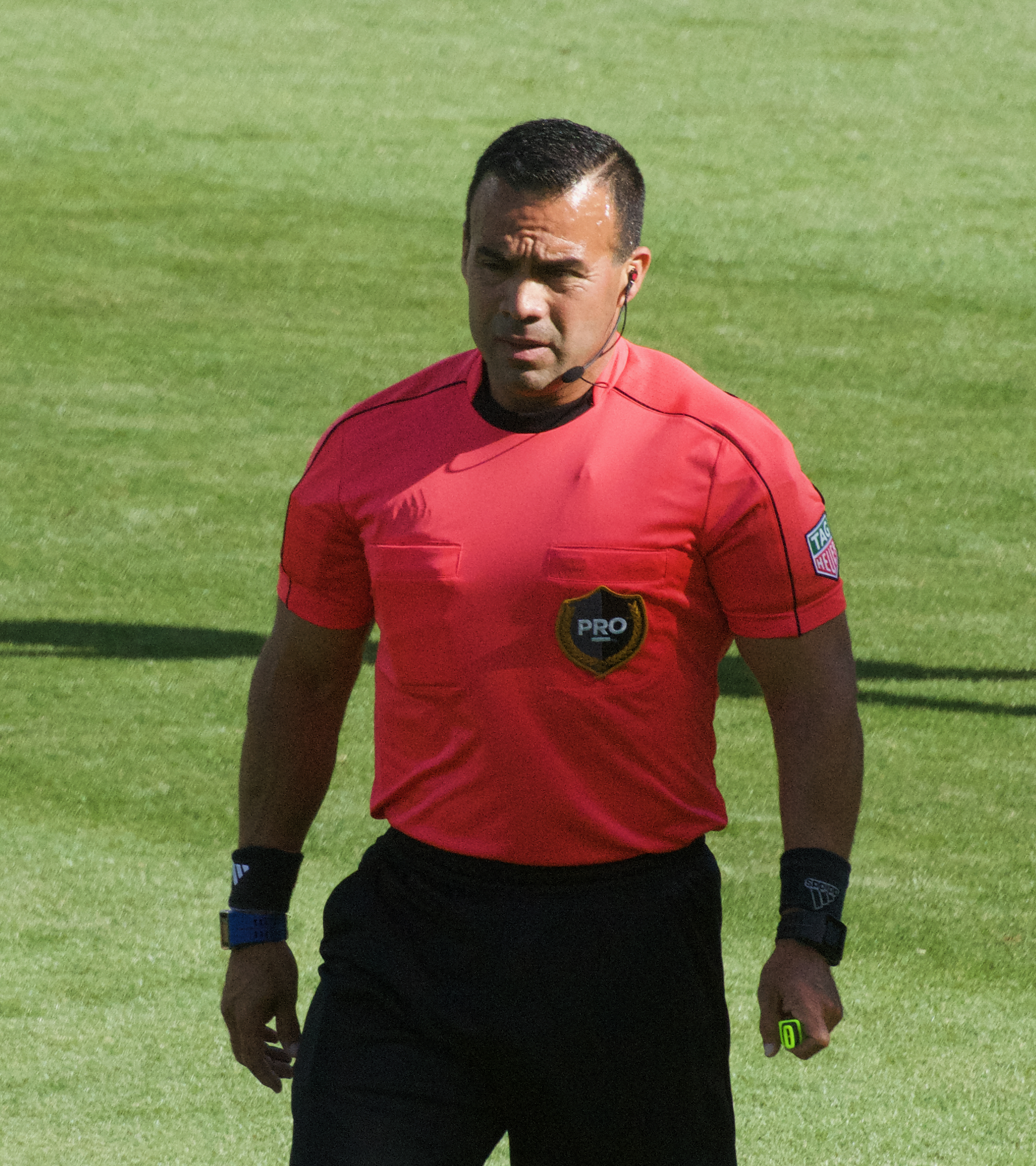 Hilario Grajeda as referee for the match between Colorado Rapids and San Jose Earthquakes. Avaya Stadium, 29 July 2017.